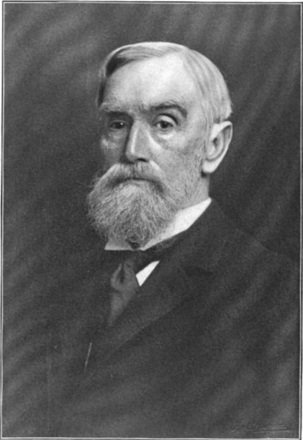 Photograph of Daniel Parmelee Eells, taken about 1901. Eells was born April 16, 1825, in Westmoreland, New York. His family moved to Amherst, Ohio, when he was 12 years old. Well-educated, he moved to Cleveland in 1844 and started his rise in the banking industry. Becoming wealthy, he became a significant investor in the cement, coke, natural gas, iron, oil, railroad, and steel industries. He died August 14, 1903, and is buried at Lake View Cemetery in Cleveland.